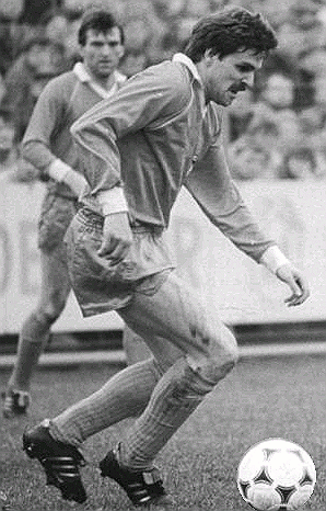 Title: 1. FC Union Berlin - FC Rot-Weiß Erfurt 2:1 Factual corrections and alternative descriptions are encouraged separately from the original description. Additionally errors can be reported at this page to inform the Bundesarchiv. Original historic description: ADN-ZB-Franke-1.4.88-ma-Berlin: Fußball-Oberliga- 1. FC Union Berlin - FC Rot-Weiß Erfurt 2:1. Martin Busse, der Torschütze in der 38. Spielminute zur 1:0-Führung der Gäste aus Erfurt, im Zweikampf mit Union-Abwehrspieler Matthias Morack (rechts).